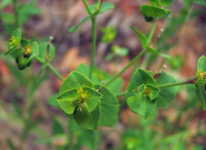 Euphorbia terracina at Solstice Canyon: TWR loop trail, Santa Monica Mountains National Recreation Area, California, USA.